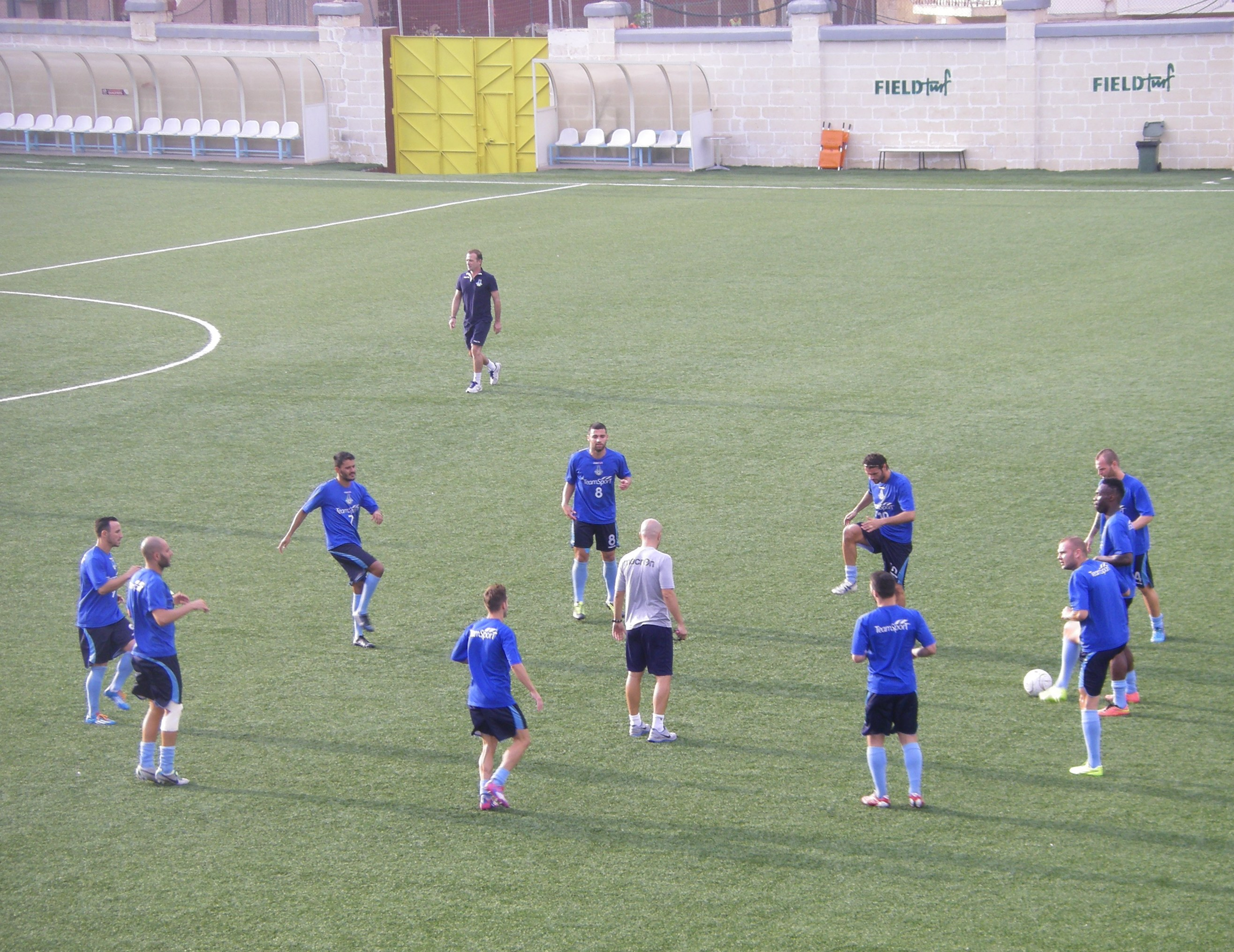 Training of Sliema Wanderers before kick-off against Żebbuġ Rangers F.C. on October 2, 2014 in Victor Tedesco Stadium, Ħamrun.